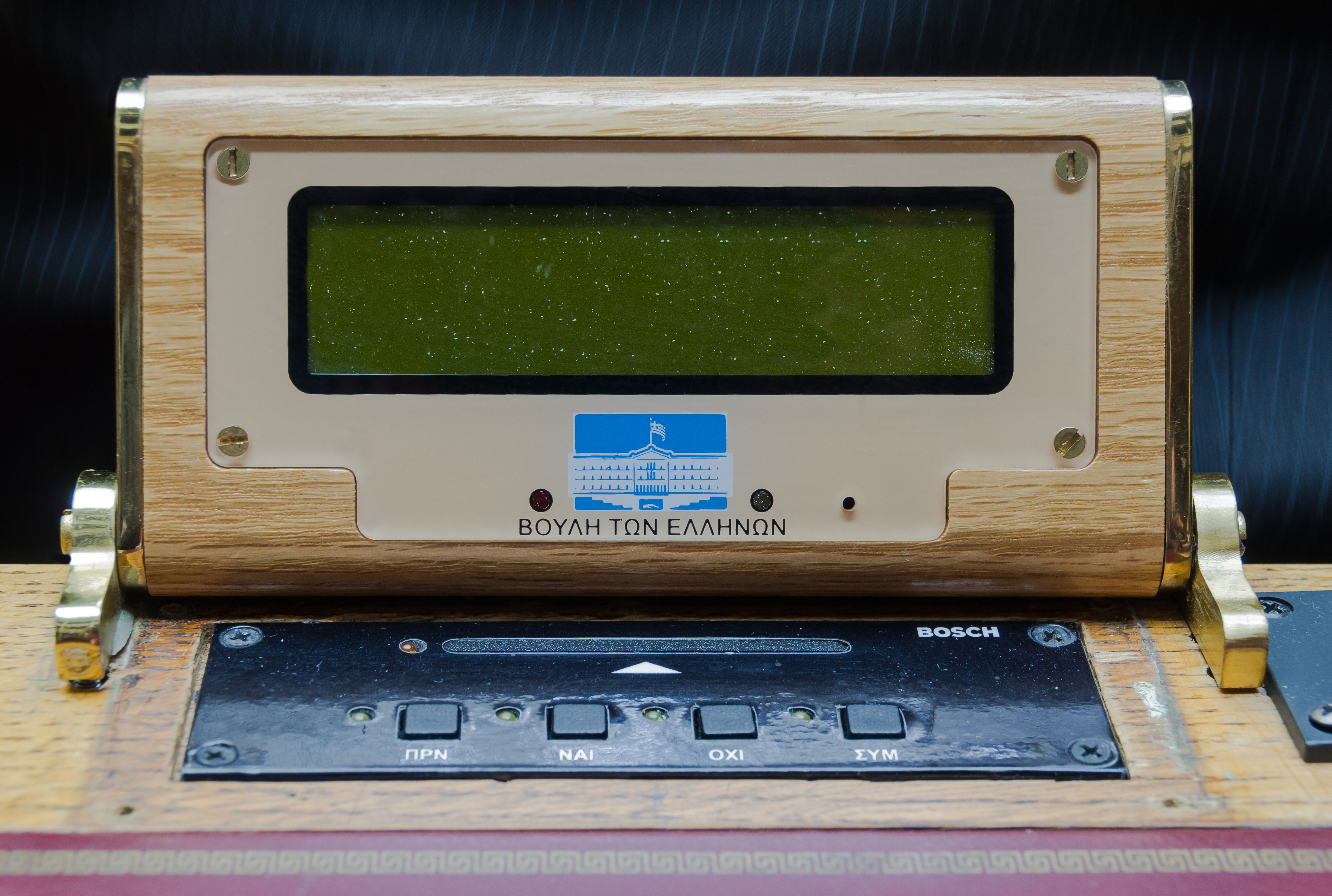 A voting machine for an MP of the Hellenic Parliament, Plenary hall, Athens, Greece.